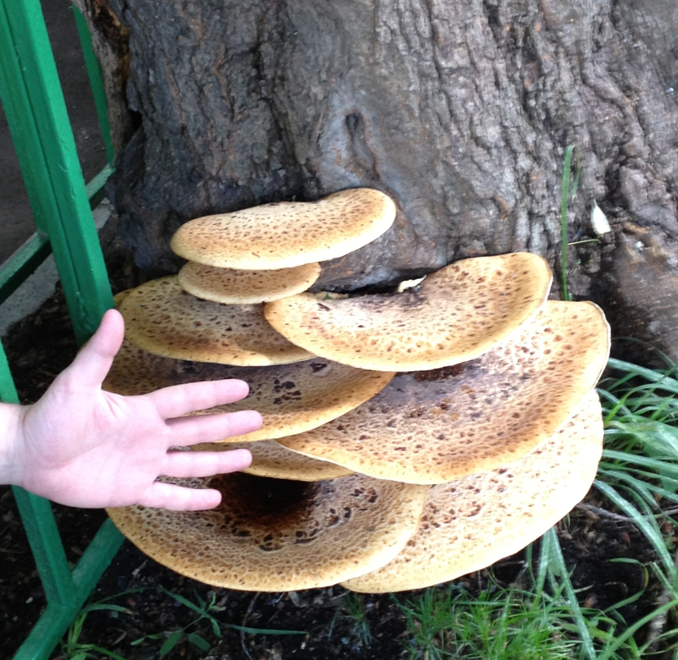 A huge Polyporus squamosus in Moscow downtown